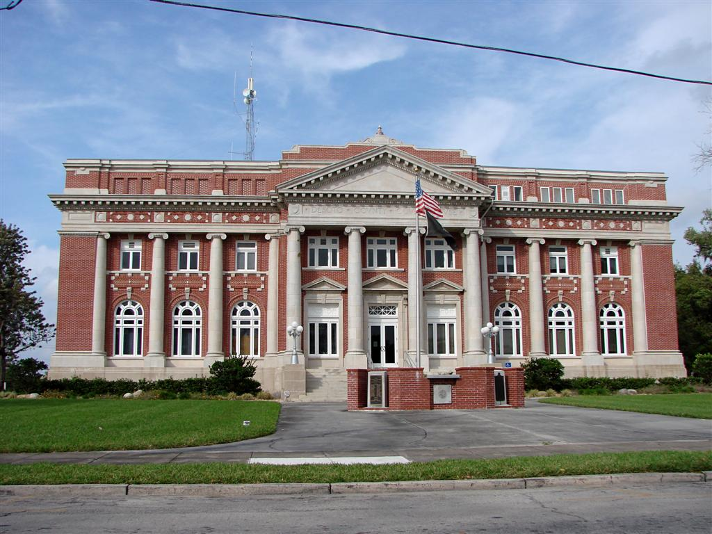 DeSoto County courthouse, Arcadia. March 2, 2007.